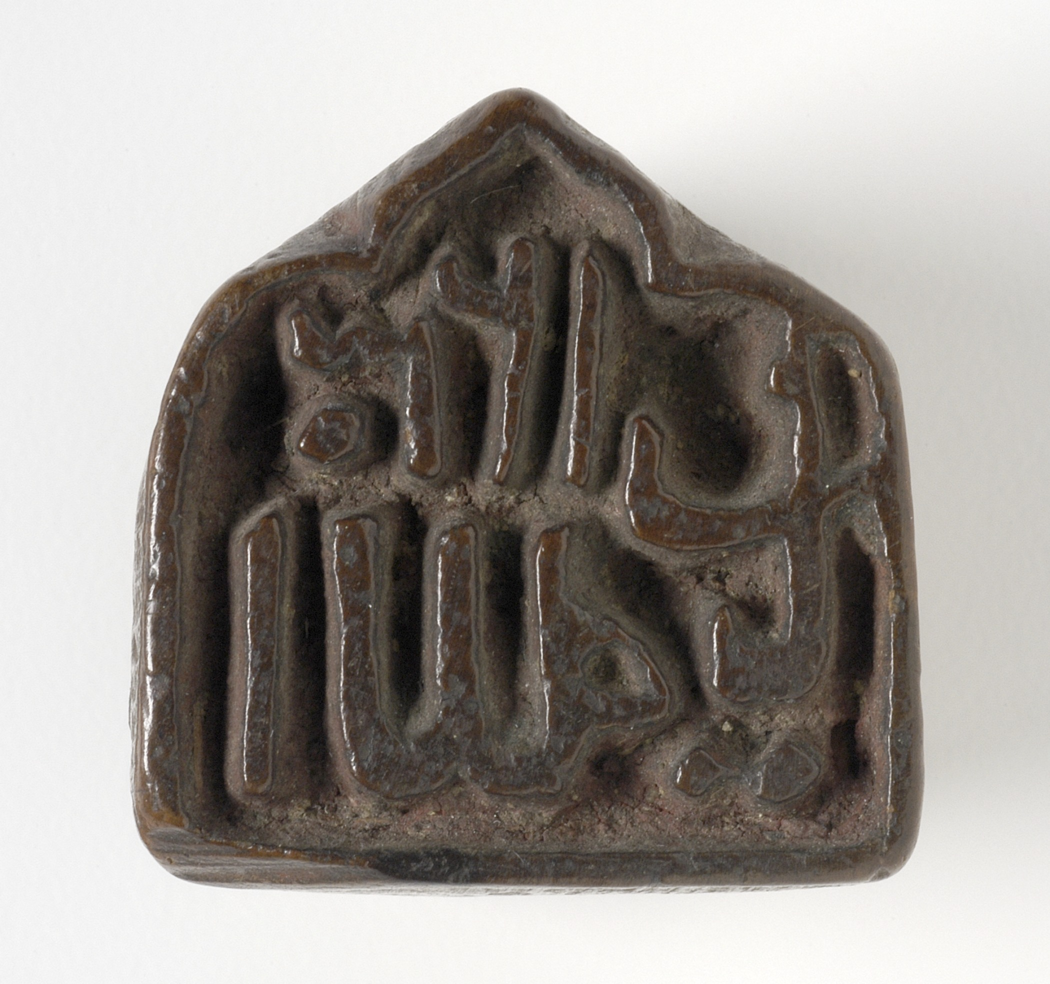 Ottoman, 1814-1815/1230 A.H. Tools and Equipment; stamps Wood, carved 1 5/16 x 1 5/16 x 1 11/16 in. (3.33 x 3.33 x 4.29 cm) The Madina Collection of Islamic Art, gift of Camilla Chandler Frost (M.2002.1.762) Islamic Art